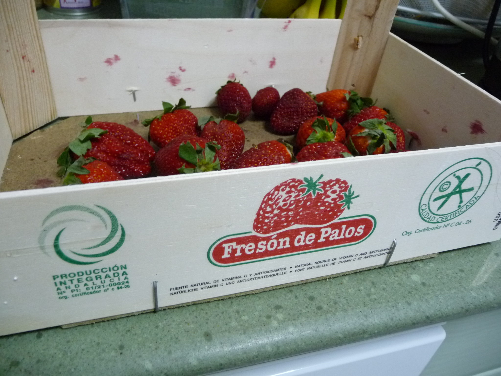 Strawberry box, "producción integrada" (environment-friendly production)